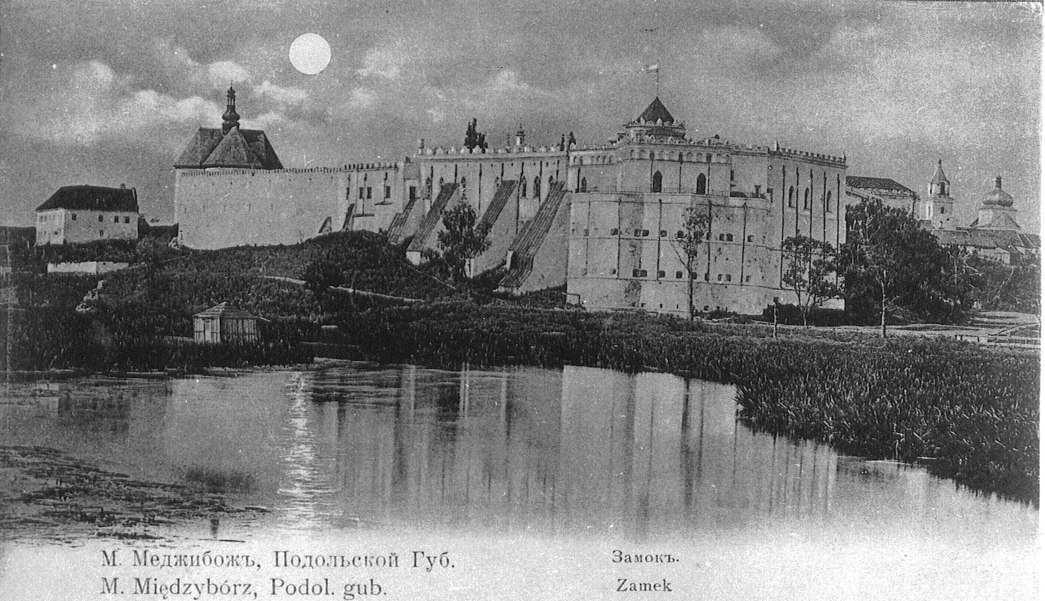 Key words: Medzhybizh, Castle Medzhibozh Castle image from a 1900 post card.